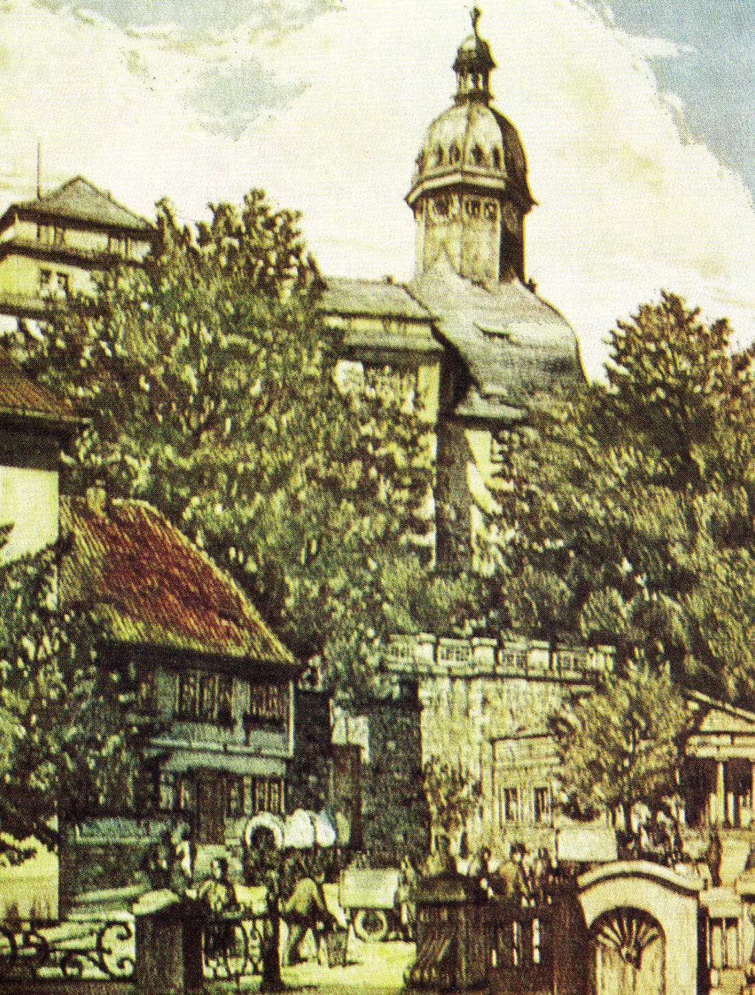 Radierung "Markt mit Schloss Sondershausen" von Curt Mücke